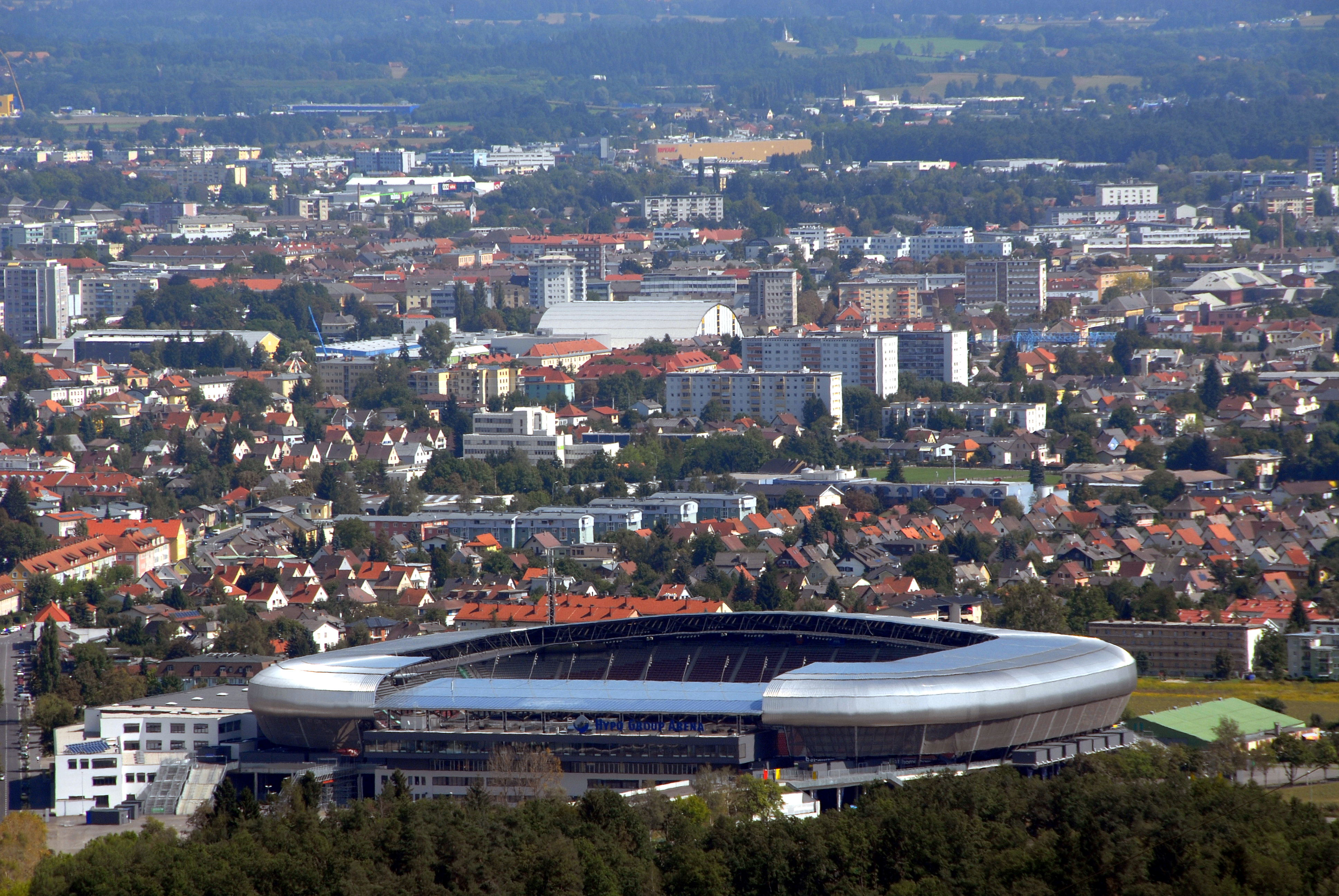 Southern part of the city of Klagenfurt, Carinthia, Austria, view from the flank of the Schrottkogel